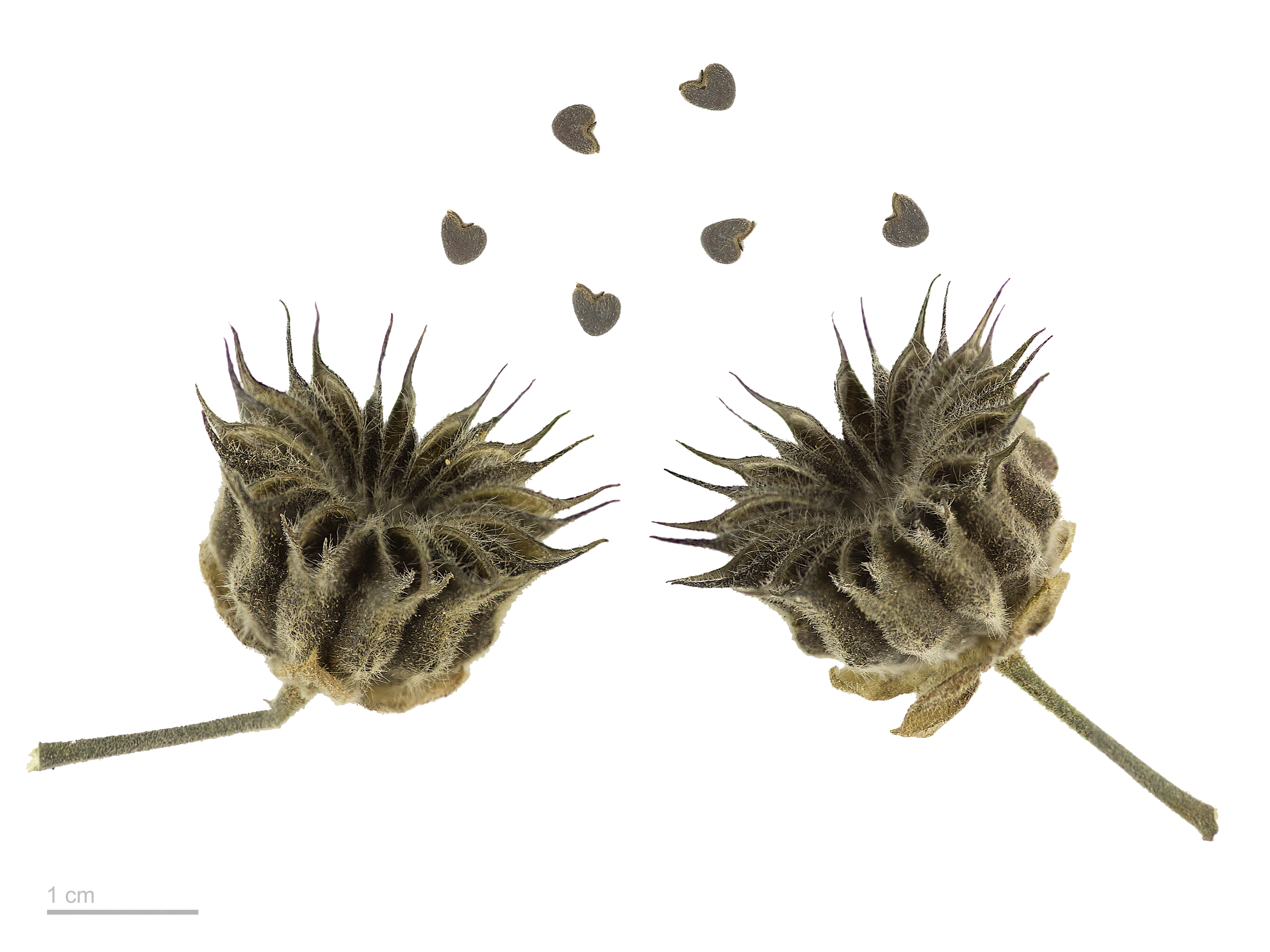 Velvetleaf , fruits and seeds